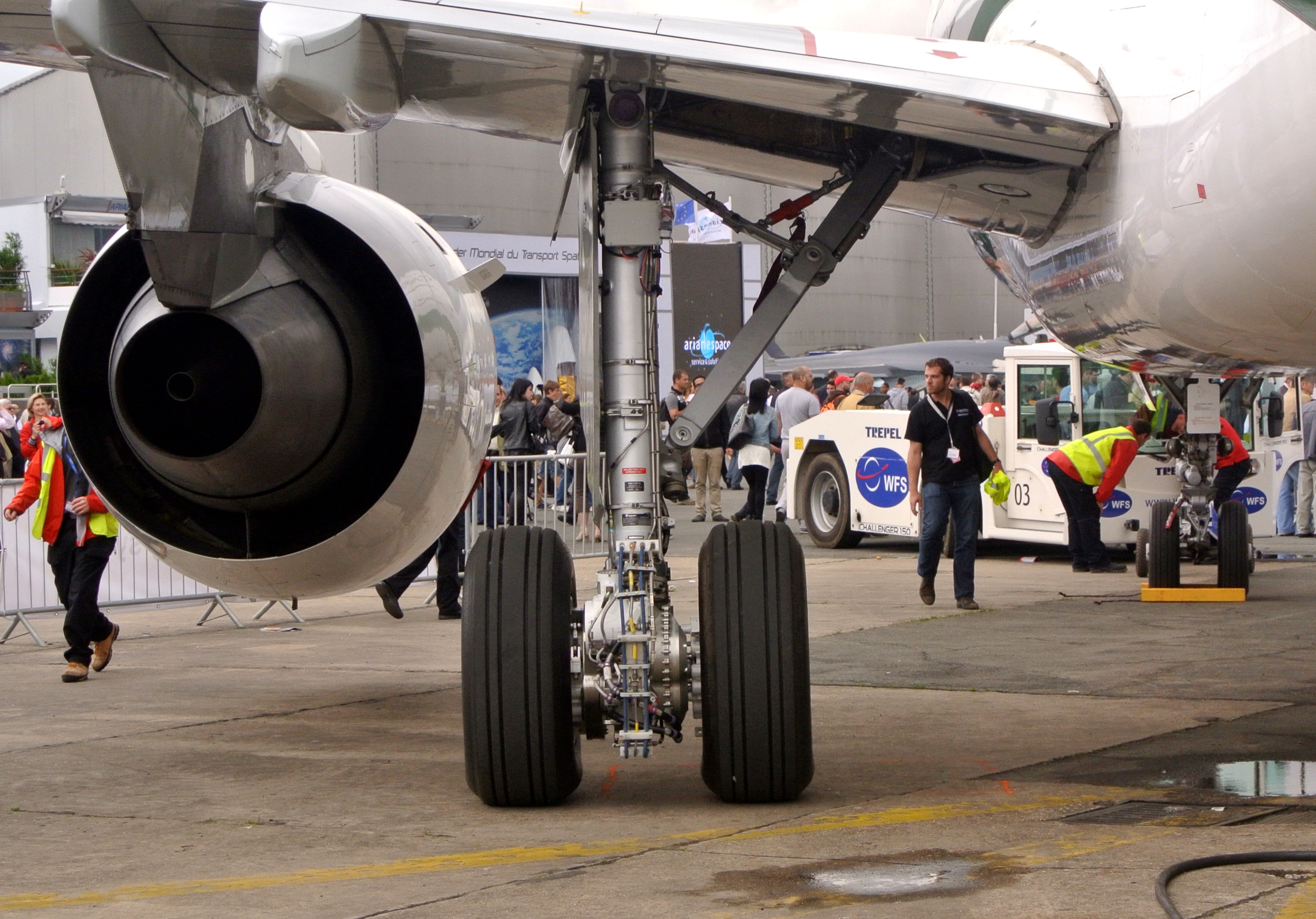 EGTS,Electric Green Taxiing System,, développed by, Honeywell Messier-Bugatti-Dowty Safran, installed on a Airbus A320-212 (F-HGNT)